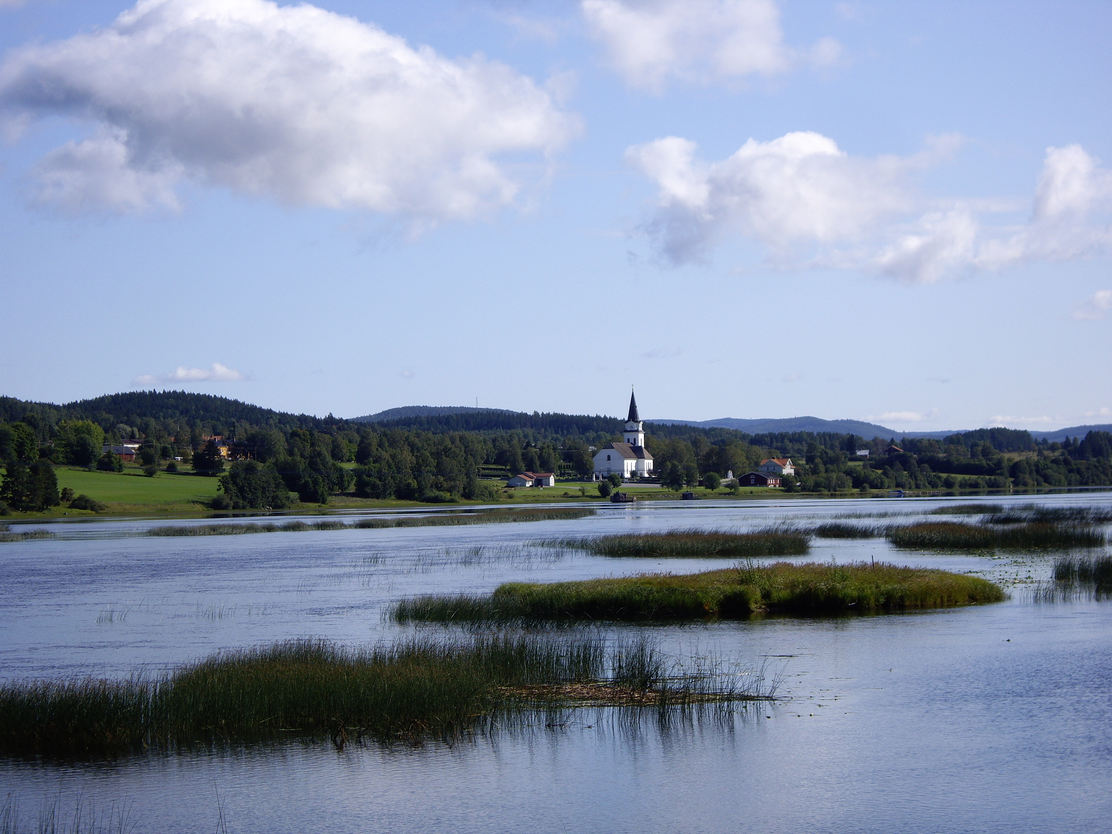 Photograph of Torp's church in Fränsta, Sweden. View from the other side of the lake.